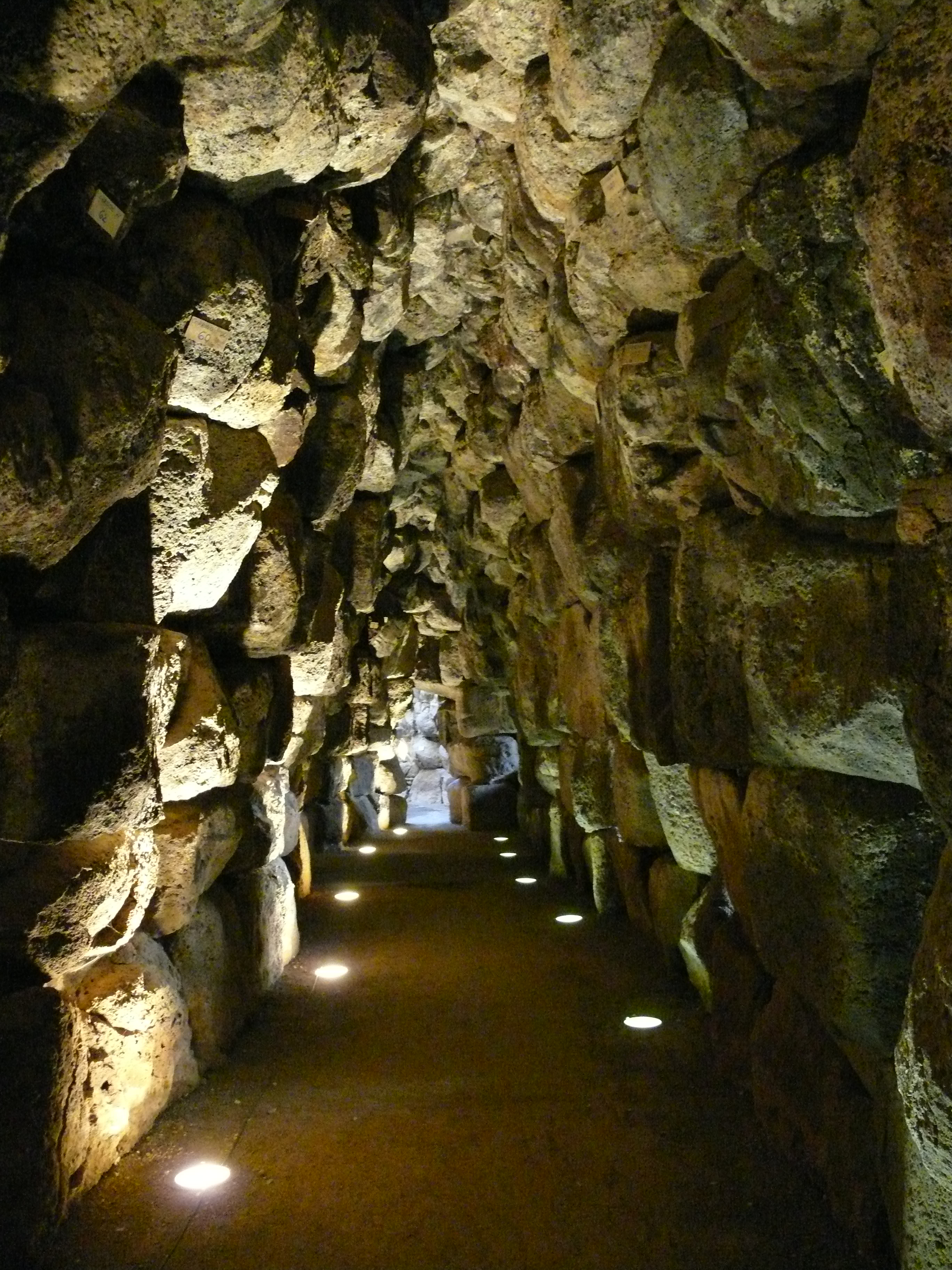 a gallery of Nuraghe Sant' Antine - Torralba, Sardinia